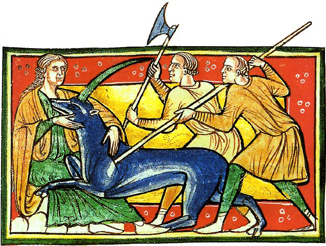 The Worksop Bestiary (Morgan Library, MS M. 81), folio 12 verso: Unicornis, circa 1185, England, miniature, 21.5 × 15.5 cm, Morgan Library, New York.